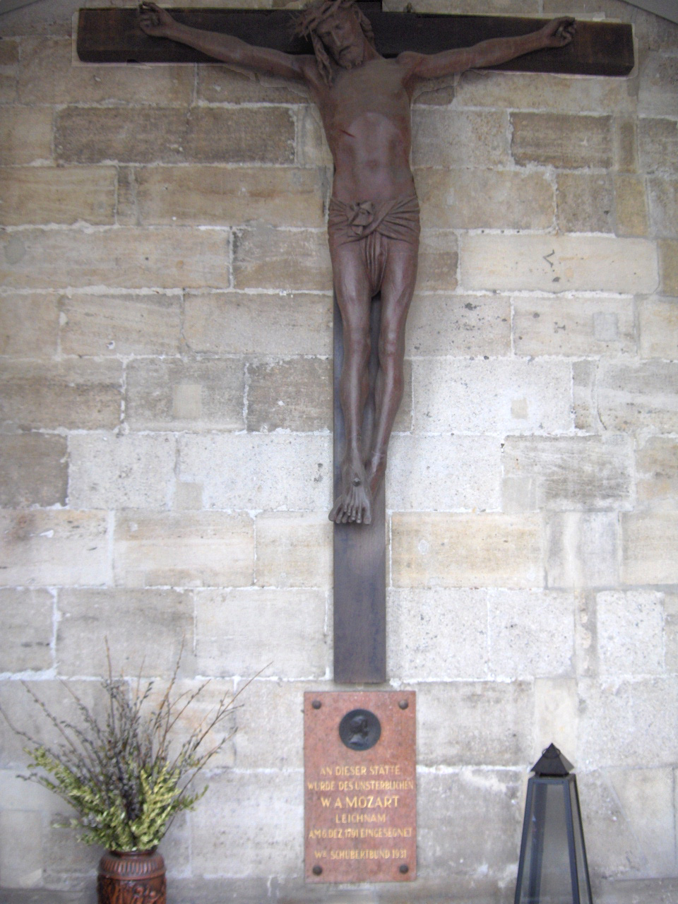 Burial chapel of W.A. Mozart outside the Stephansdom in Vienna, Austria